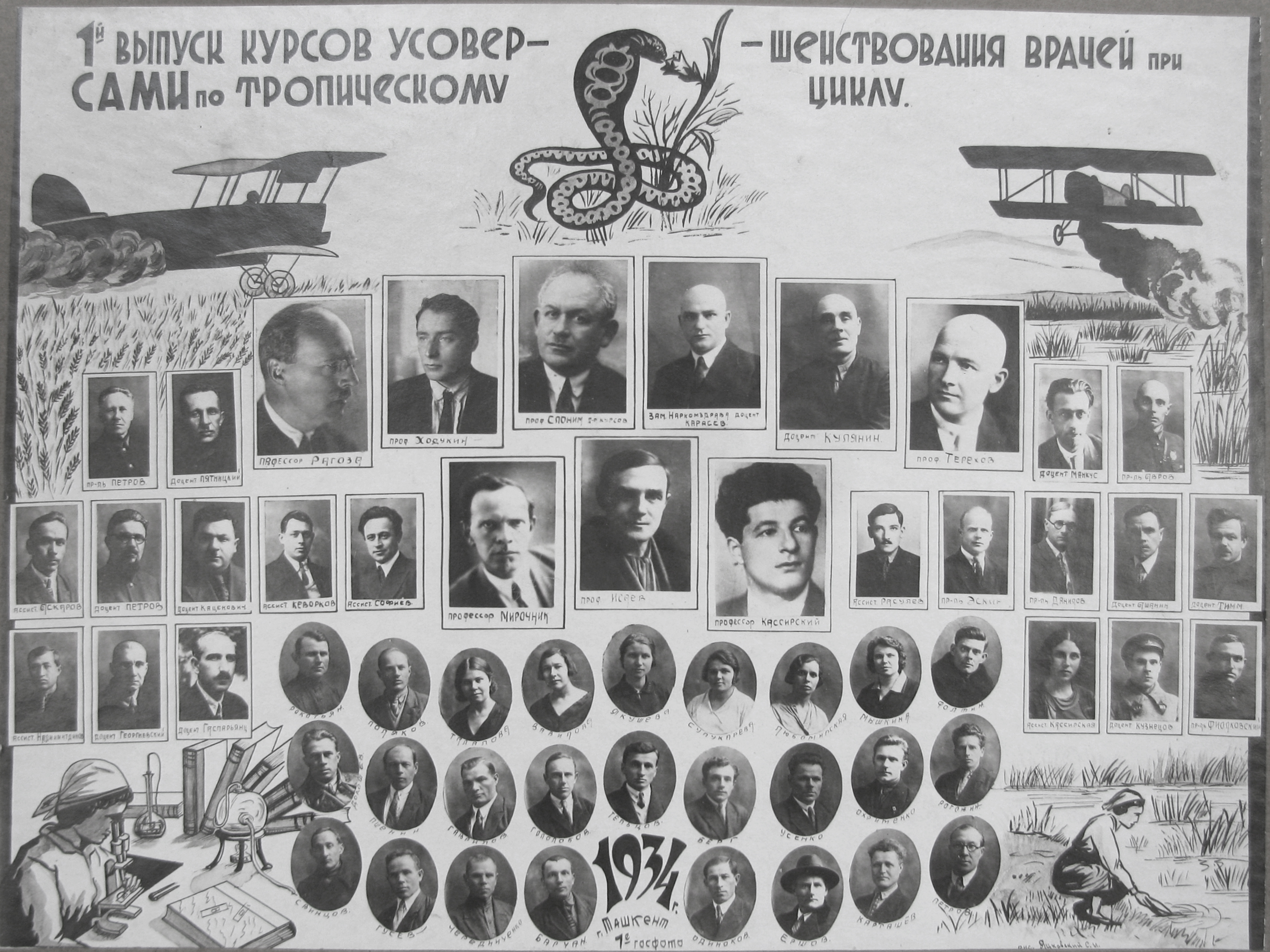 The group photo of graduates and teachers of the the first release of advanced training courses of doctors at the Central Asian medical institute on a tropical cycle in Tashkent. 1934 year.